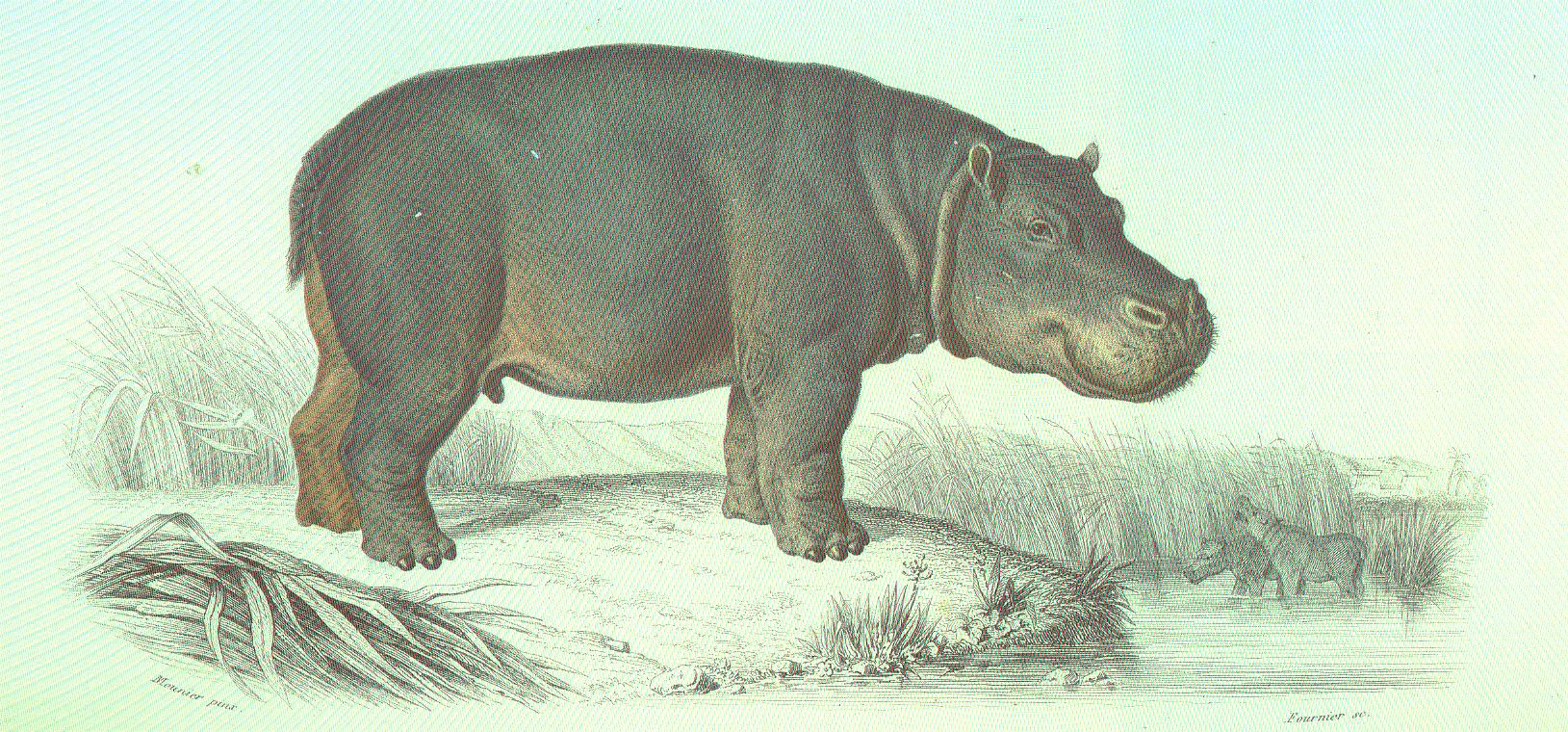 Hippopotamus amphibius Subject: Hippopotamus Tag: Aquatic Mammals